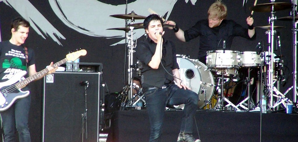 United States rock band My Chemical Romance performing at the Big Day Out music festival at Claremont showgrounds in Perth, Australia.